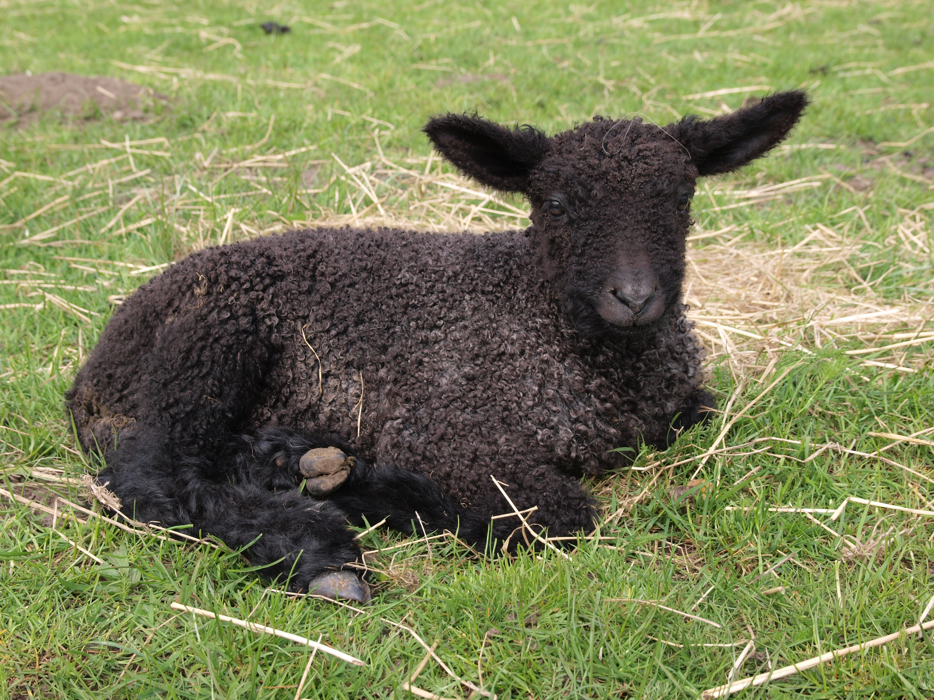 Resting black Wensleydale Longwool lamb 6 days old.